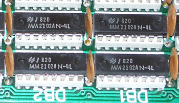 A bank of 2102 Static Random Access Memory (SRAM) integrated circuits (1024 bit x 1), manufactured by National Semiconductor, circa 1977.